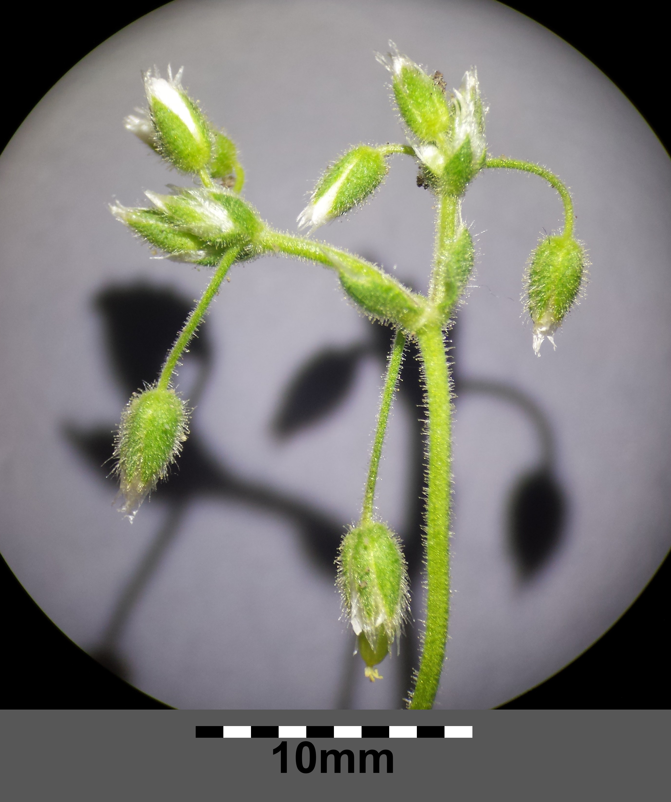 Inflorescence/infructescence with bent down fruit stalks Taxonym: Cerastium semidecandrum ss Fischer et al. EfÖLS 2008 ISBN 978-3-85474-187-9 Location: Haulesbergen, district Mistelbach, Lower Austria - ca. 200 m a.s.l. Habitat: semi-dry grassland